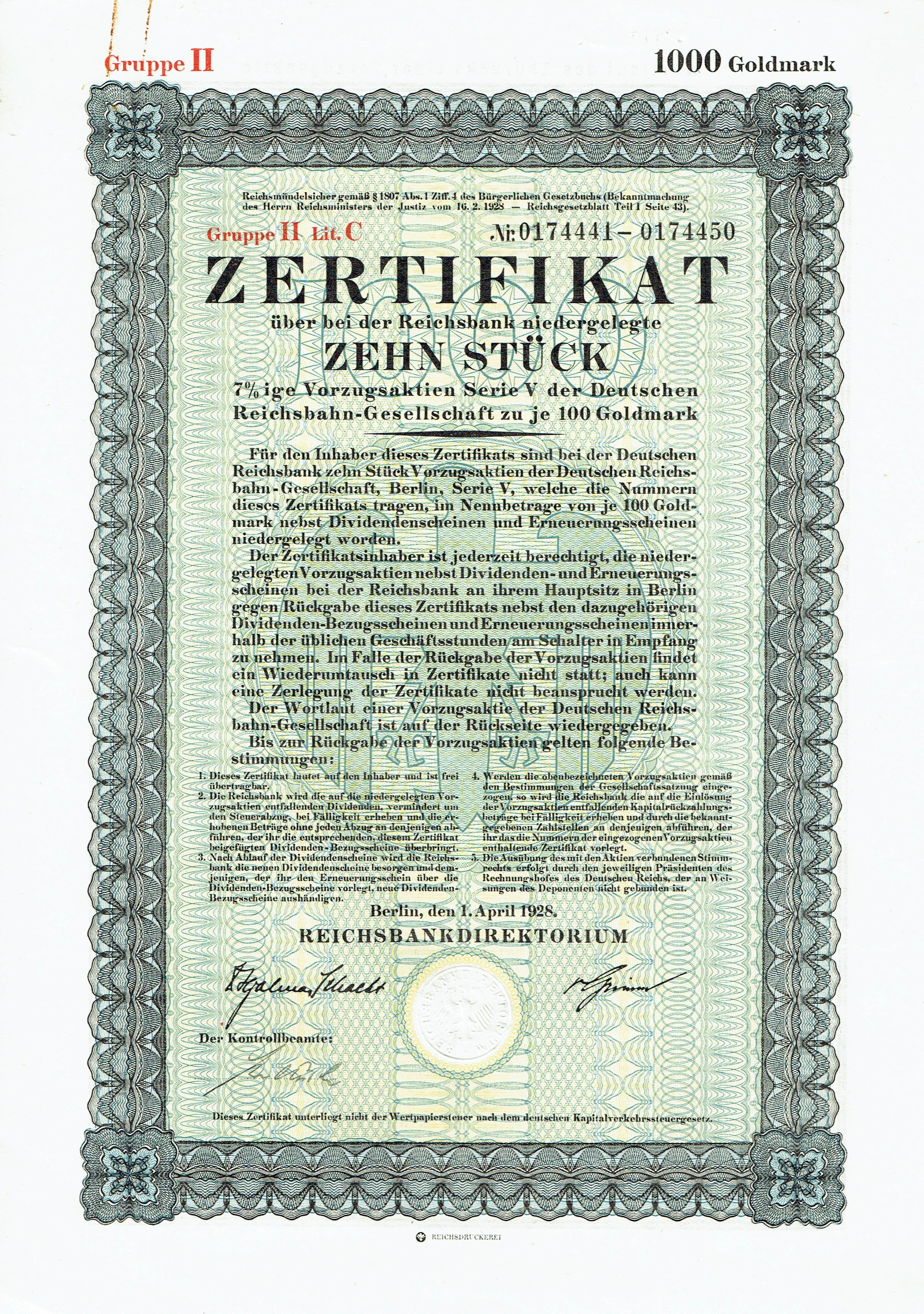 Certificate about 10 shares of the Deutsche Reichsbahn-Gesellschaft, issued 1. April 1928 by the Reichsbankdirektion